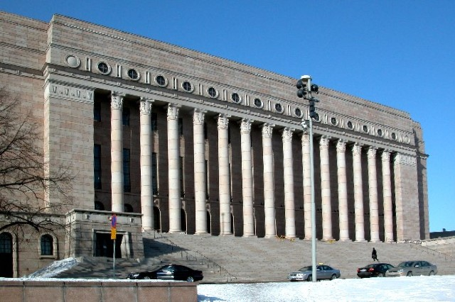 Main building of the Parliament of Finland (eduskunta / Riksdagen).